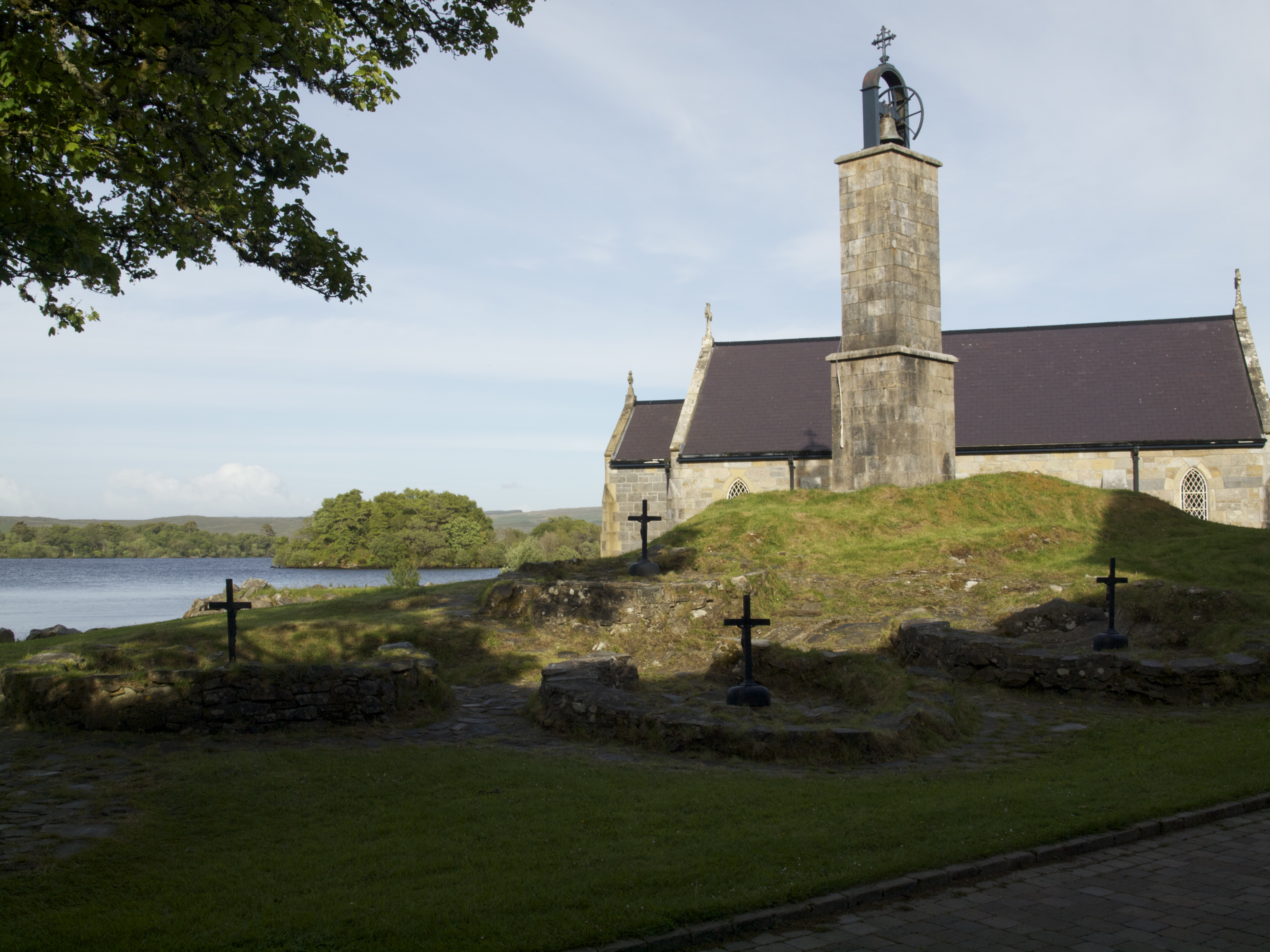 Chapel, bell tower and penitential beds, Station Island, Lough Derg, County Donegal, Ireland.